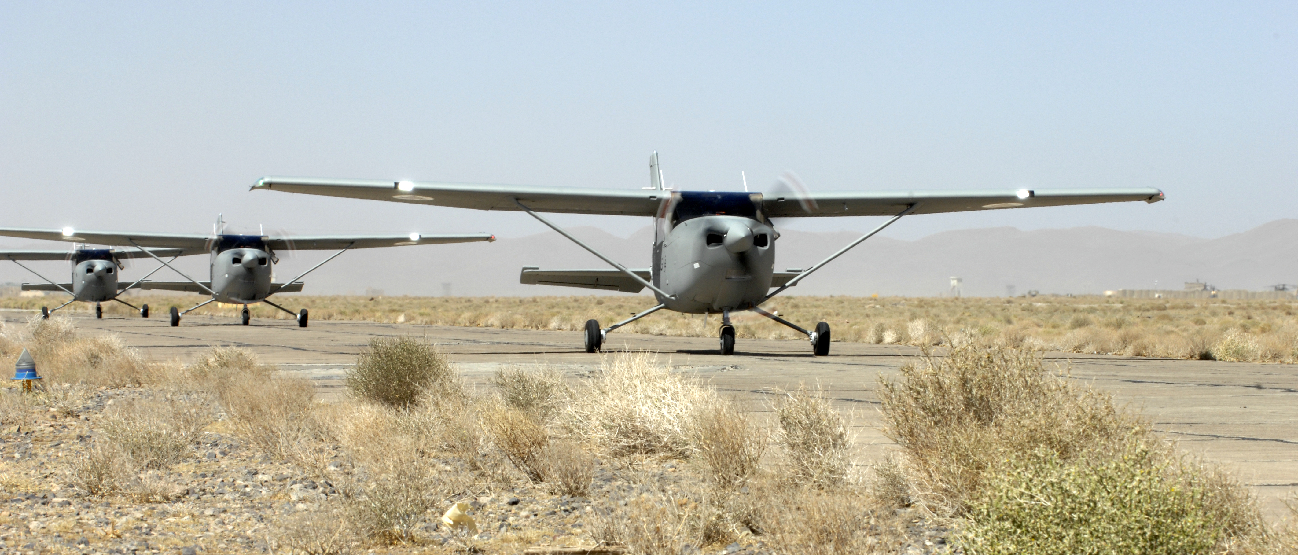 Three Afghan air force Cessna 182 Turbos arrive at Shindand Air Base, Afghanistan, Sept. 18, 2011. With undergraduate pilot training slated to begin at Shindand in December, the trainer aircraft will provide a valuable resource for formal flight training. Three more C-182 Turbos are expected to arrive in Shindand later in September. (U.S. Air Force photo/Staff Sgt. Matthew Smith)